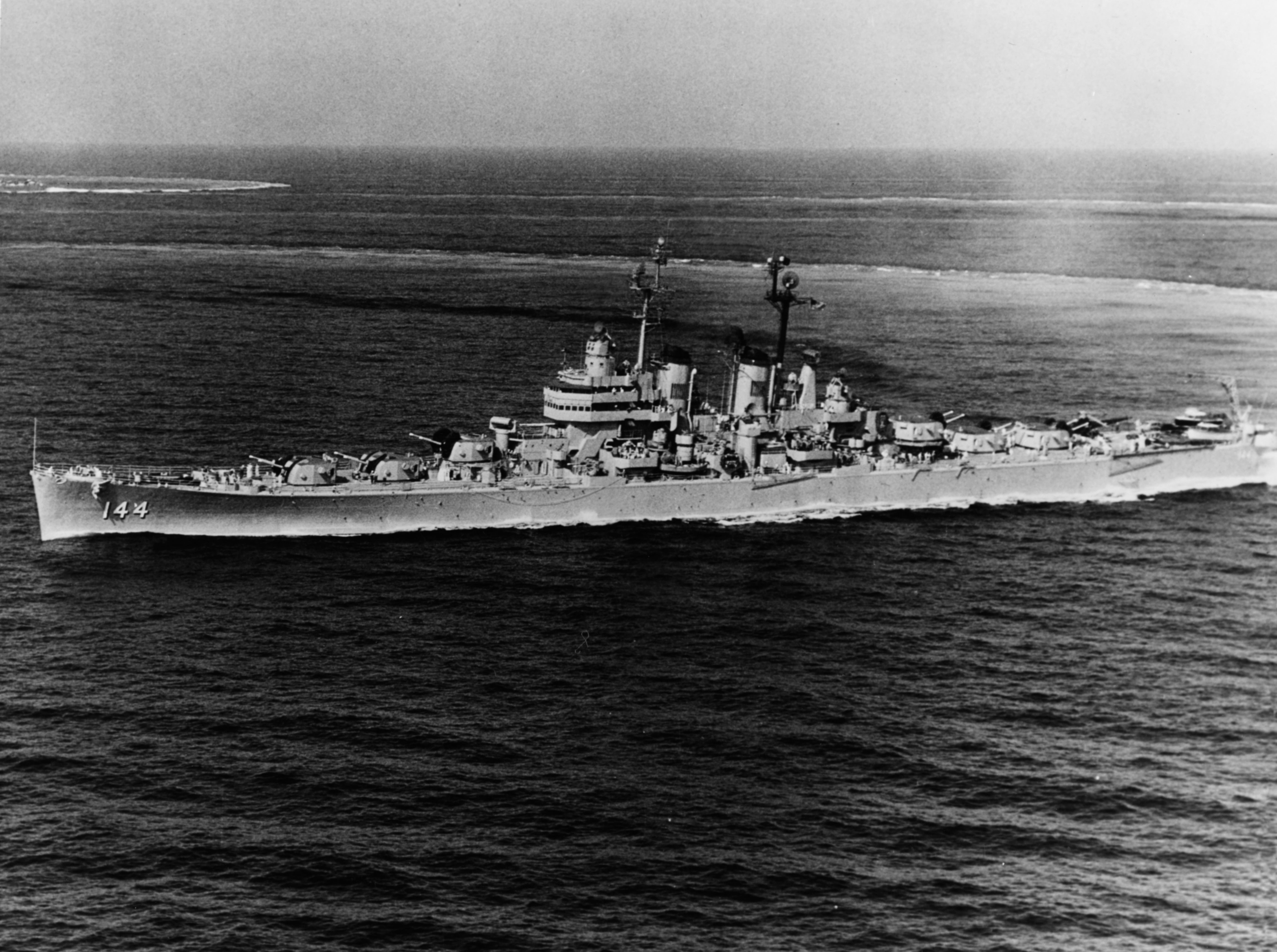 The U.S. Navy light cruiser USS Worcester (CL-144) underway in the Mediterranean Sea with other ships of the U.S. Sixth Fleet, June 1950.